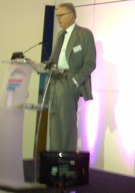 The Northeast Economic Forum at the Ramside hotel in Durham on February 18th 2010. The FutureStory project website was launched at this event by Lucy Parker, Chair of the Talent & Enterprise Taskforce: FutureStory is backed by the Department of Business, Innovation and Skills, the Department for Children, Schools and Families and the Cabinet Office.